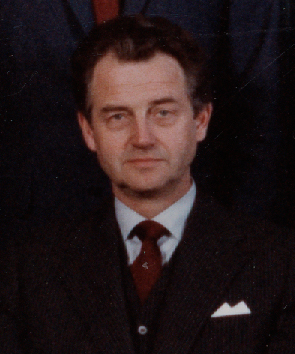 Format: Fotopositiv Dato / Date: 1982-83 Fotograf / Photographer: Ukjent Sted / Place: Trondheim Wikipedia: Axel Buch (1930 - 1998) Wikipedia: Fokus Bank Eier / Owner Institution: Trondheim byarkiv, The Municipal Archives of Trondheim Arkivreferanse / Archive reference: Tor.H45 - Løse bilder - F9462 (utsnitt) Merknad: Utsnitt av gruppebilde